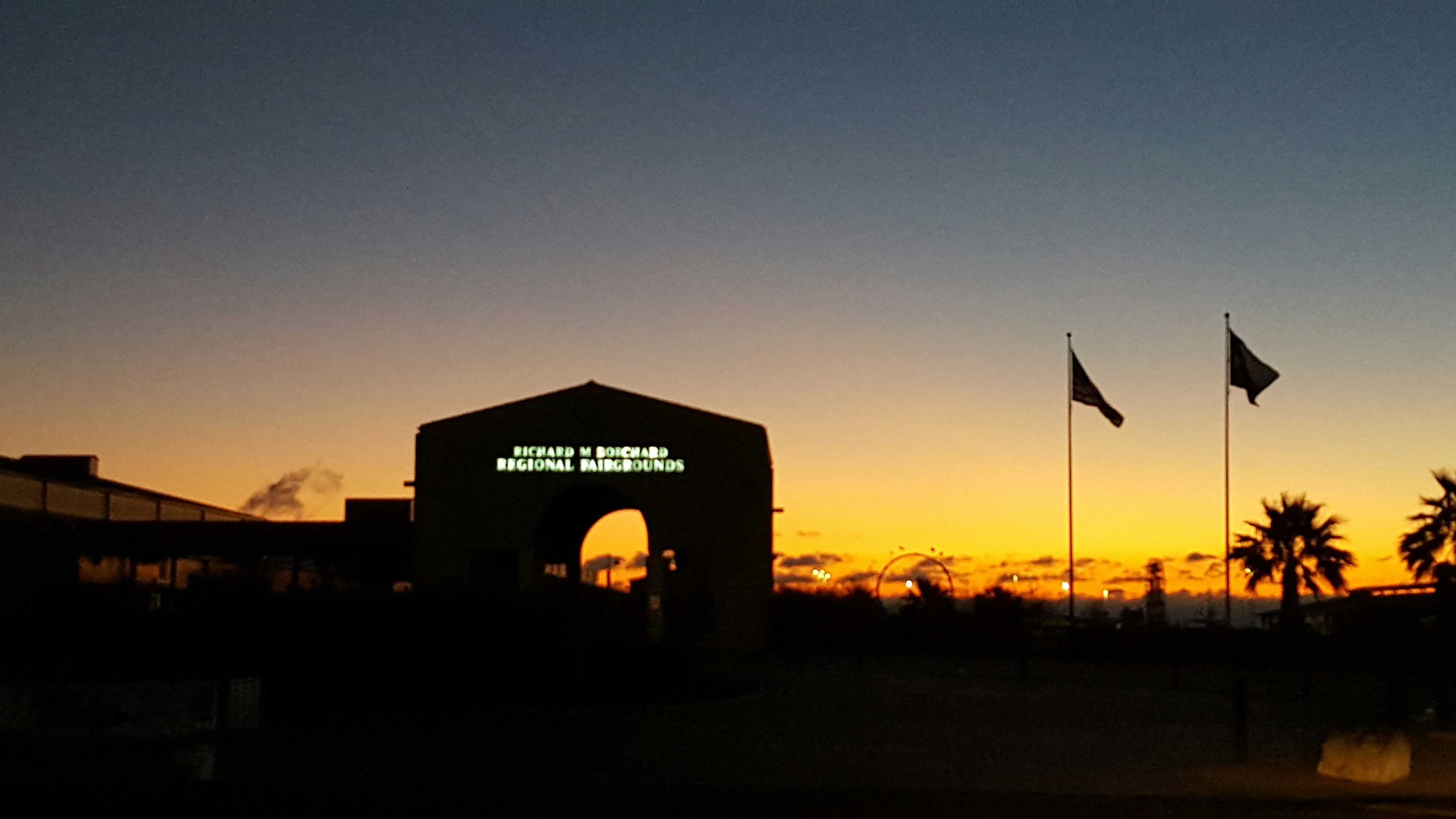 Sunrising over the main entrance to the fairgrounds